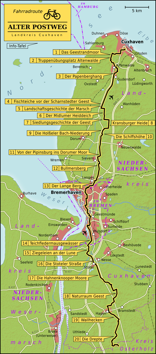 Bicycle route “Alter Postweg”, Cuxhaven district, Germany (DE)